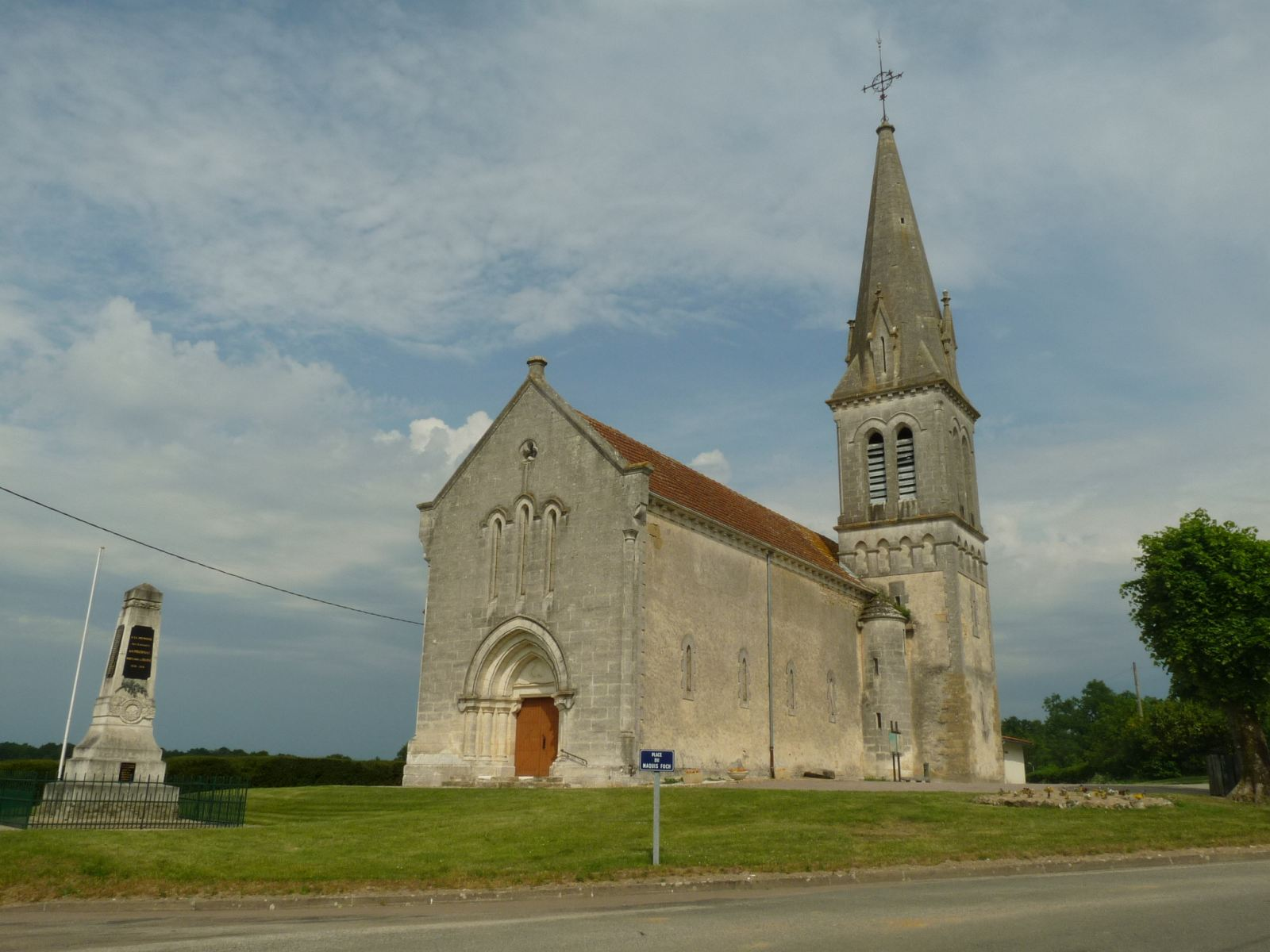 church of Ambernac, Charente, SW France